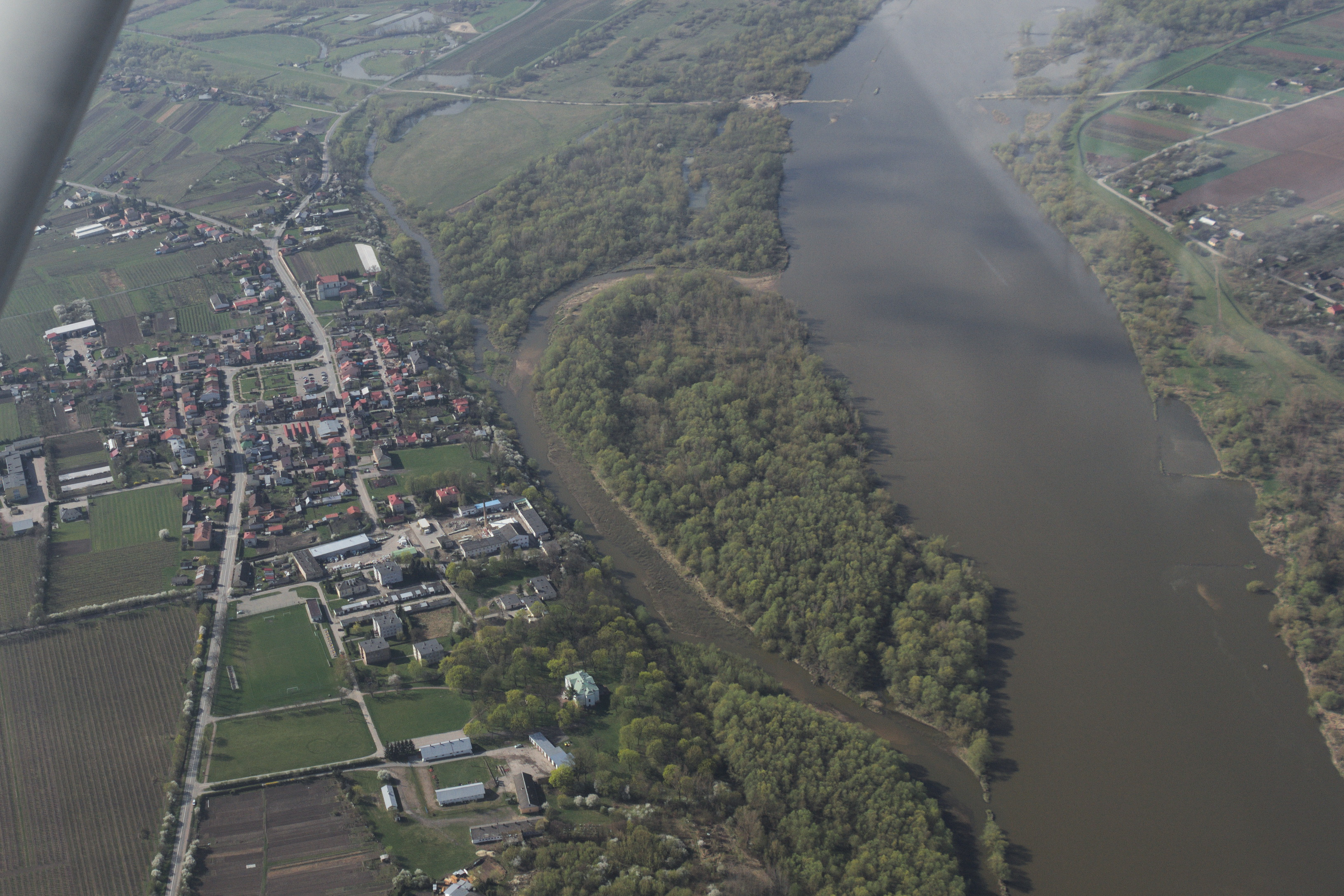 Józefów nad Wisłą aeral photo